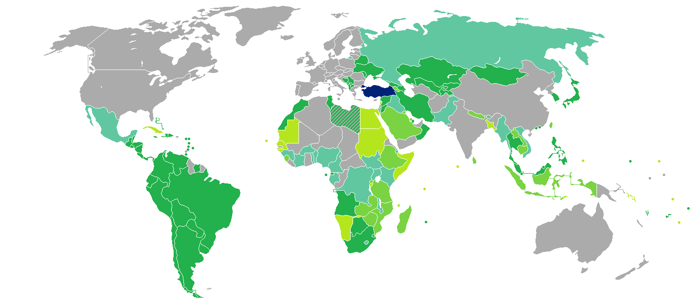 Visa requirements for Turkish citizens Turkey Visa free access Visa on arrival eVisa Visa available both on arrival or online Visa required